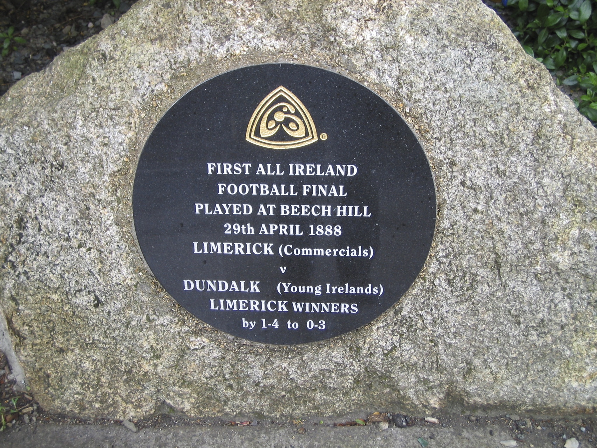 I assume that this refers to Gaelic Football (the score would indicate that it was not rugby or soccer). Donnybrook (Irish Domhnach Broc, meaning The Church of [Saint] Broc) is a district of Dublin, Ireland. It is situated on the southside of the city, in the Dublin 4 postal district, and is home to the Irish state broadcaster RTÉ. It was once the location of Donnybrook Fair, a fair held from the time of King John onwards which was notorious for drunkenness and violent disorder. This gave rise to the word donnybrook, meaning a brawl or fracas. The fair was banned in 1855 and there is little trace of the village's disreputable past; the only reminder of its raucous history is a supermarket called Donnybrook Fair on the main street, from which the name derives. Donnybrook is now one of the most affluent suburbs of Dublin. Donnybrook is the spiritual home of rugby union in Leinster. The head office of the Irish Rugby Football Union Leinster Branch is located opposite Donnybrook Stadium, where the professional Leinster team play their home games, captained by Brian O'Driscoll. Kiely's pub in Donnybrook village is a traditional social point for rugby fans.